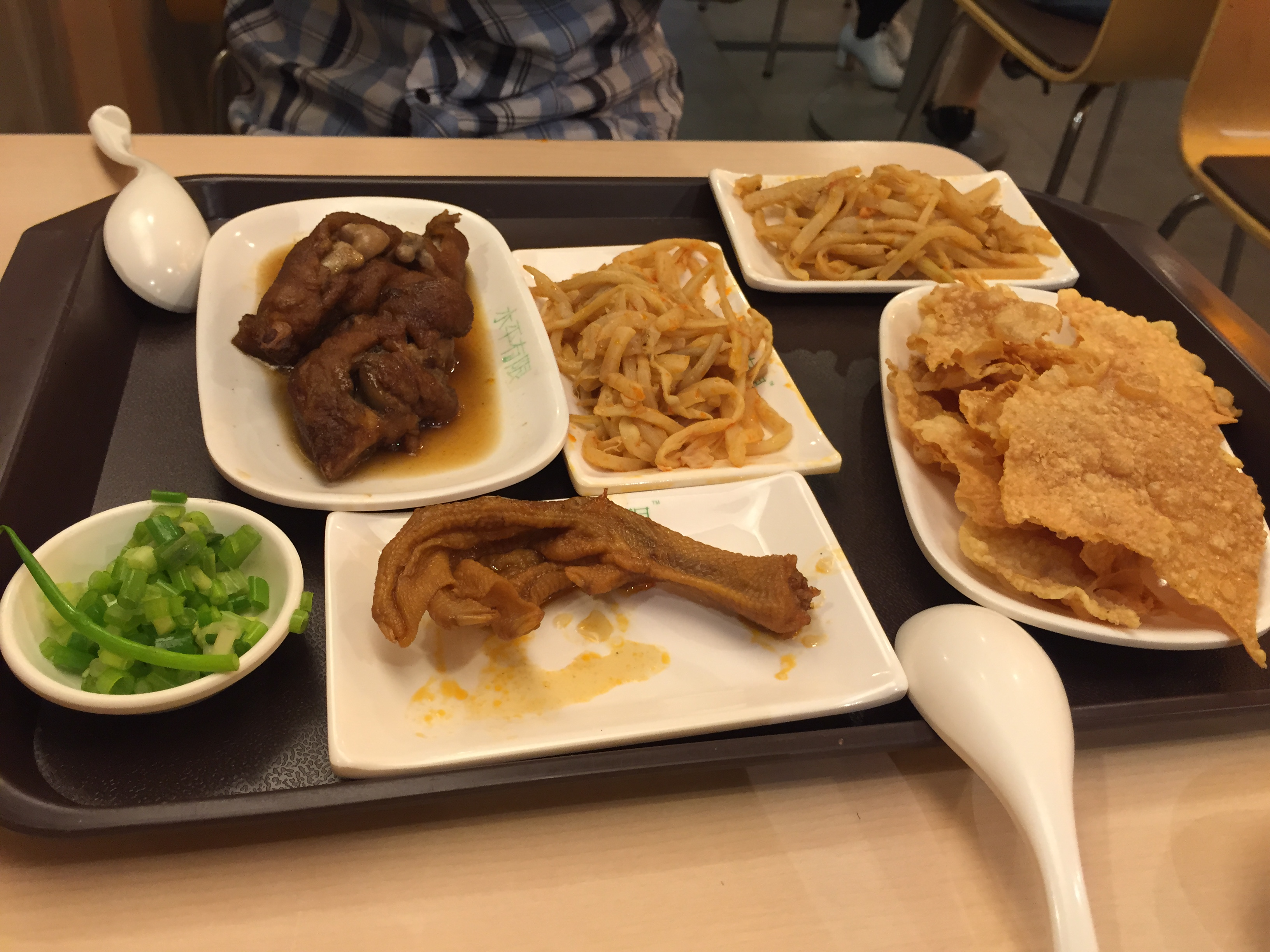 At a Luosifen restaurant in Wudaokou, the center of the universe. Pig's trotters, duck feet, fermented bamboo shoots, fried tofu skin...Perfect accessories.